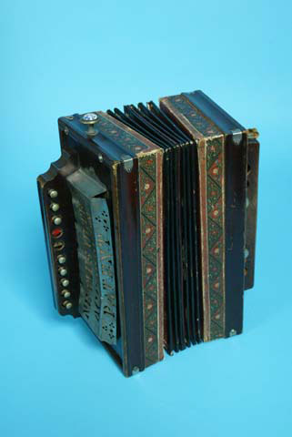 A in the permanent collection of The Children’s Museum of Indianapolis